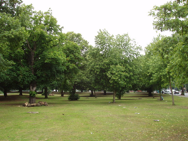 Ealing Common. This is the section of the common South-east of the Hanger Lane/Uxbridge Road junction, near Ealing Common station